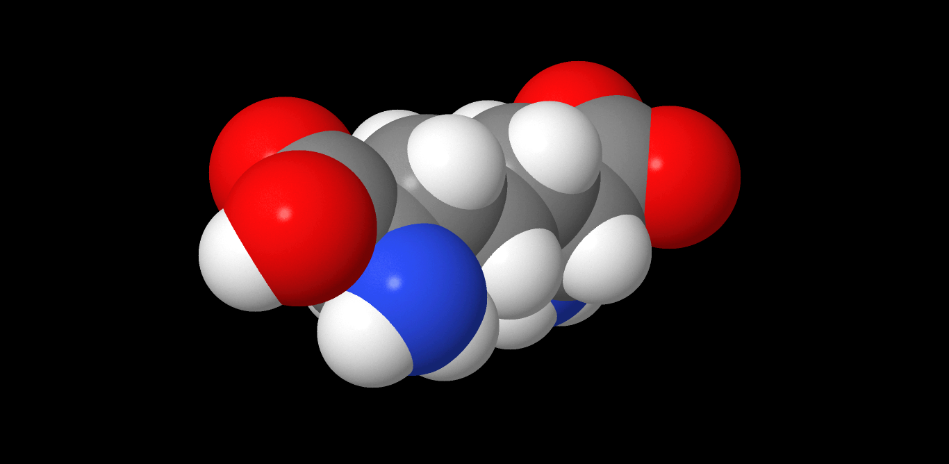 Diaminopimelic acid, static, rendered in Jmol [sic]